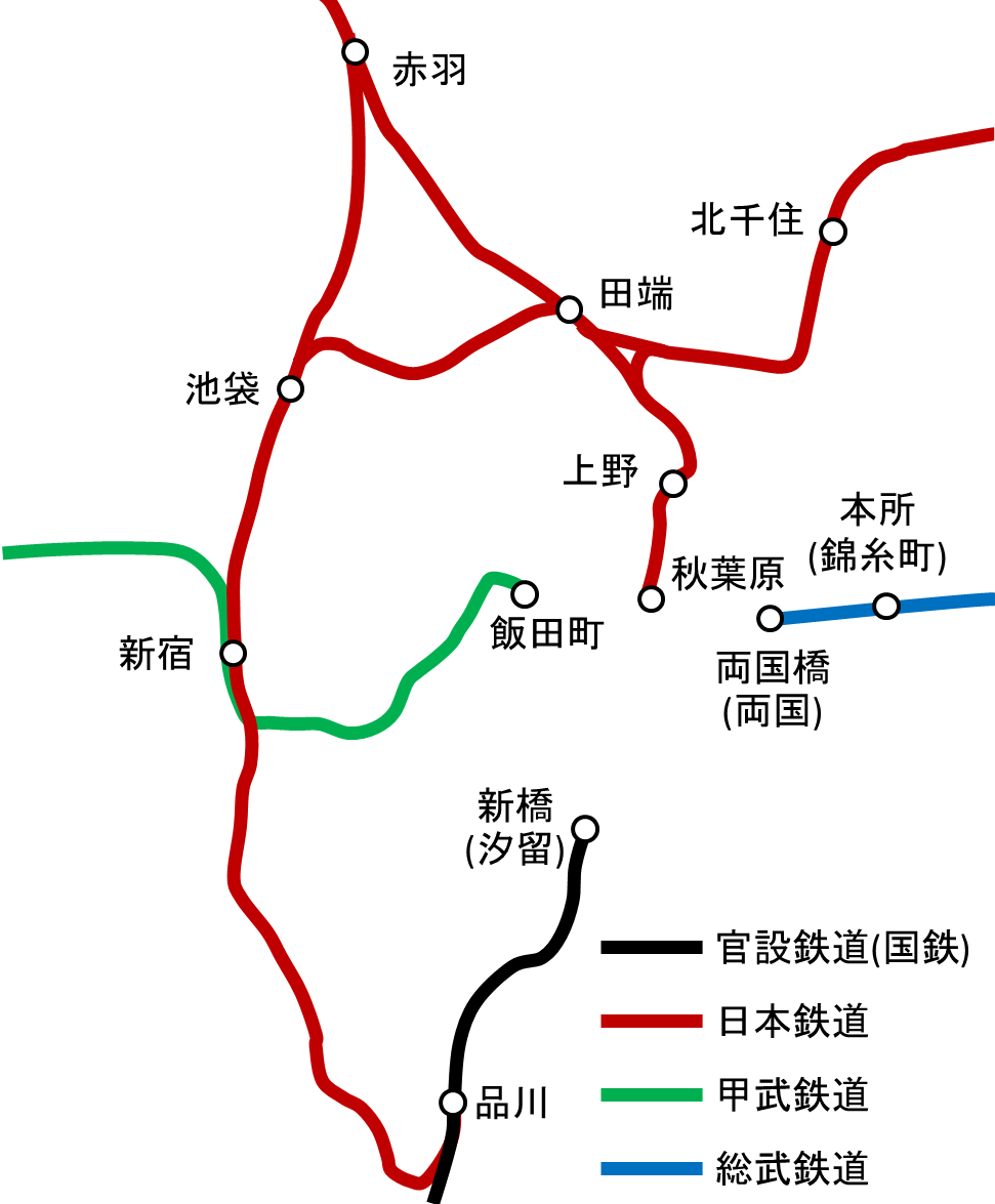 Railway network route map in Tokyo, as of 1904